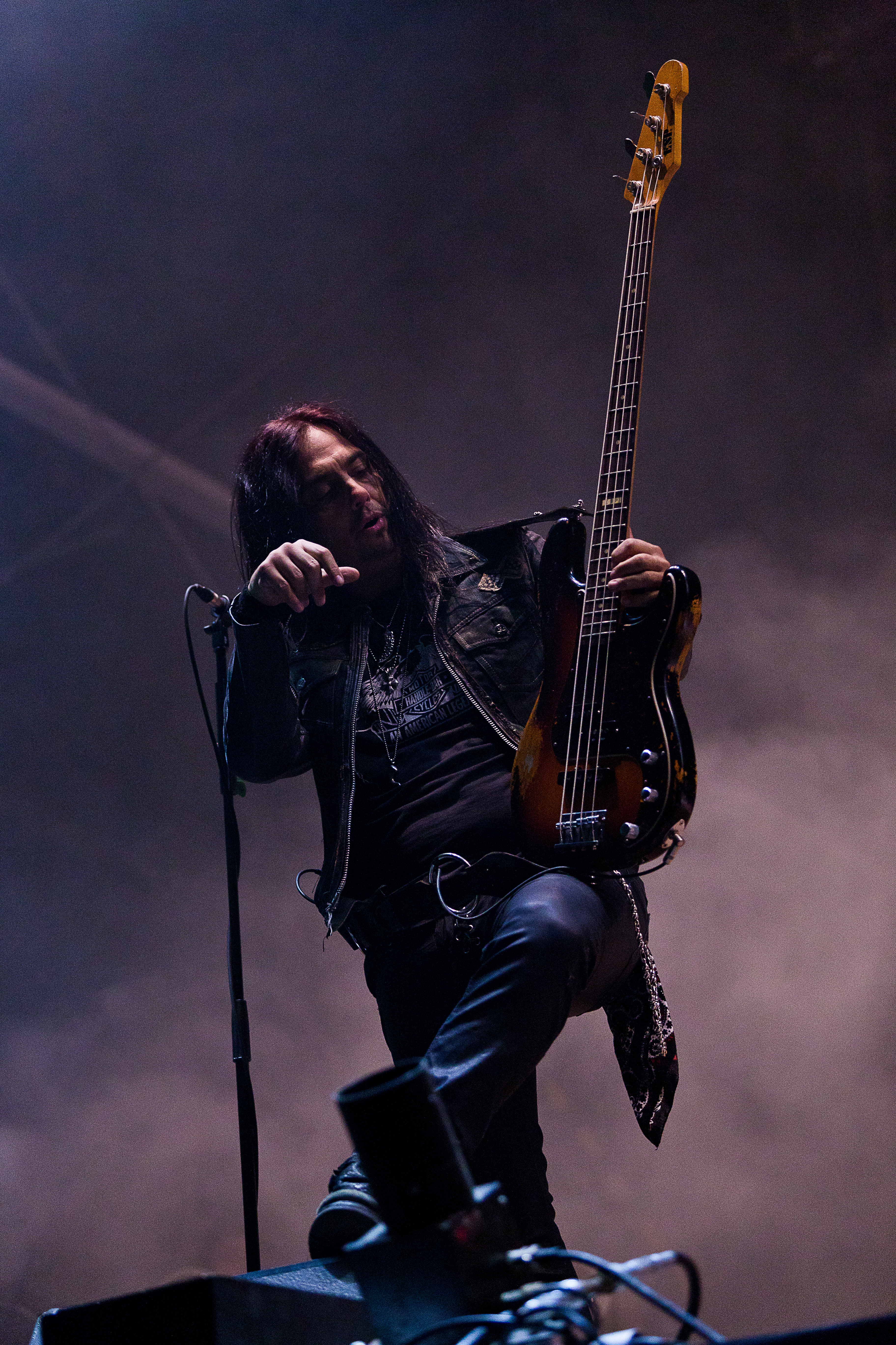 The American heavy metal band W.A.S.P. at the Rockharz Open Air 2015 in Ballenstedt/Germany.